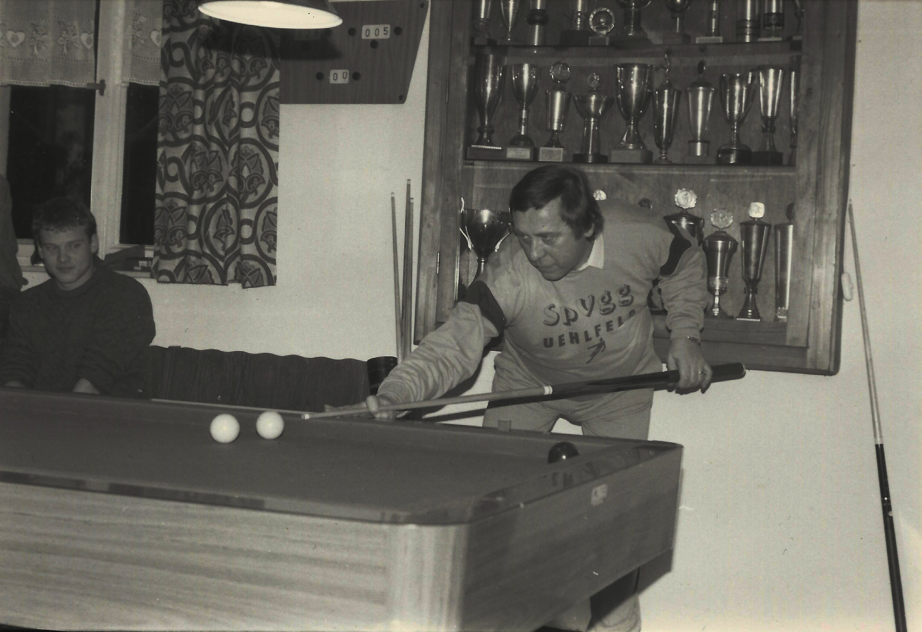 Günter Siebert (left) - german carom billiards